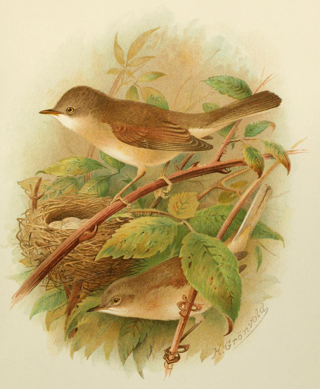 An illustration of a Whitethroat pair at their nest by Henrik Grönvold